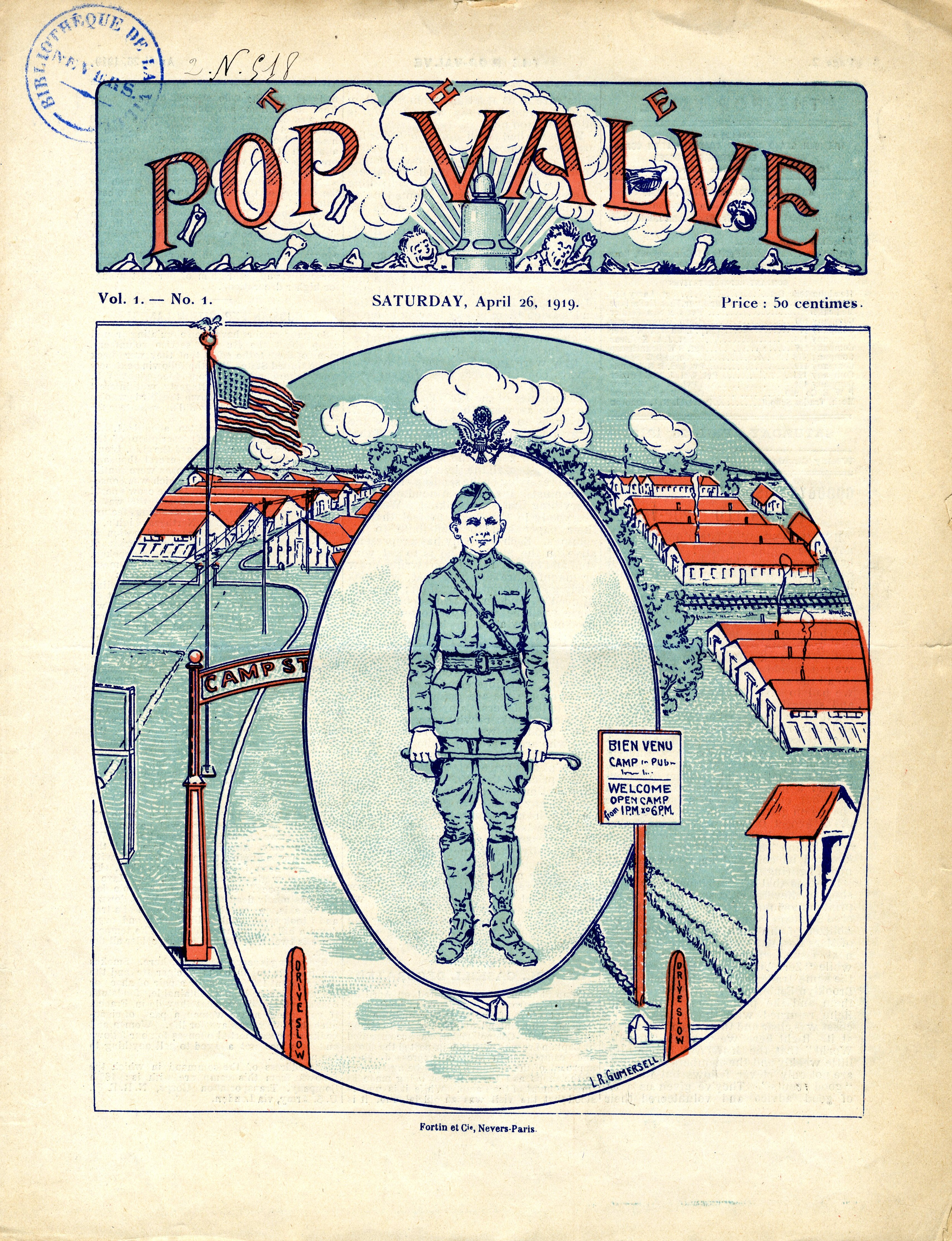 The Pop Valve, Published by and for the 19th Grand Division Transportation Corps American Expeditionary Forces, Camp Stephenson, Nevers (Nièvre).